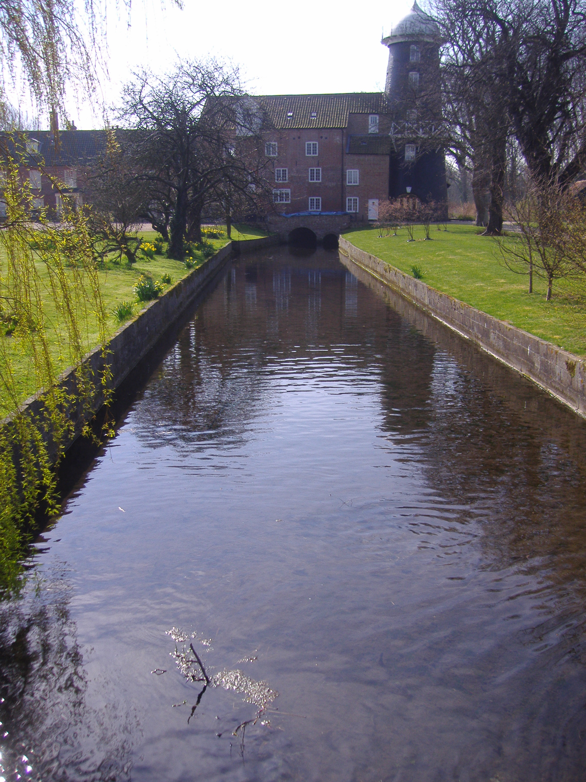 A Digital Photograph of the river Burn at Burnham Watermill